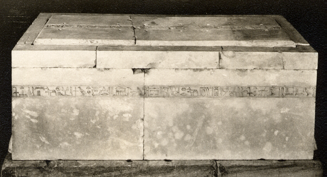 Sarcophagus, Henhenet